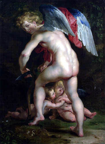 see above